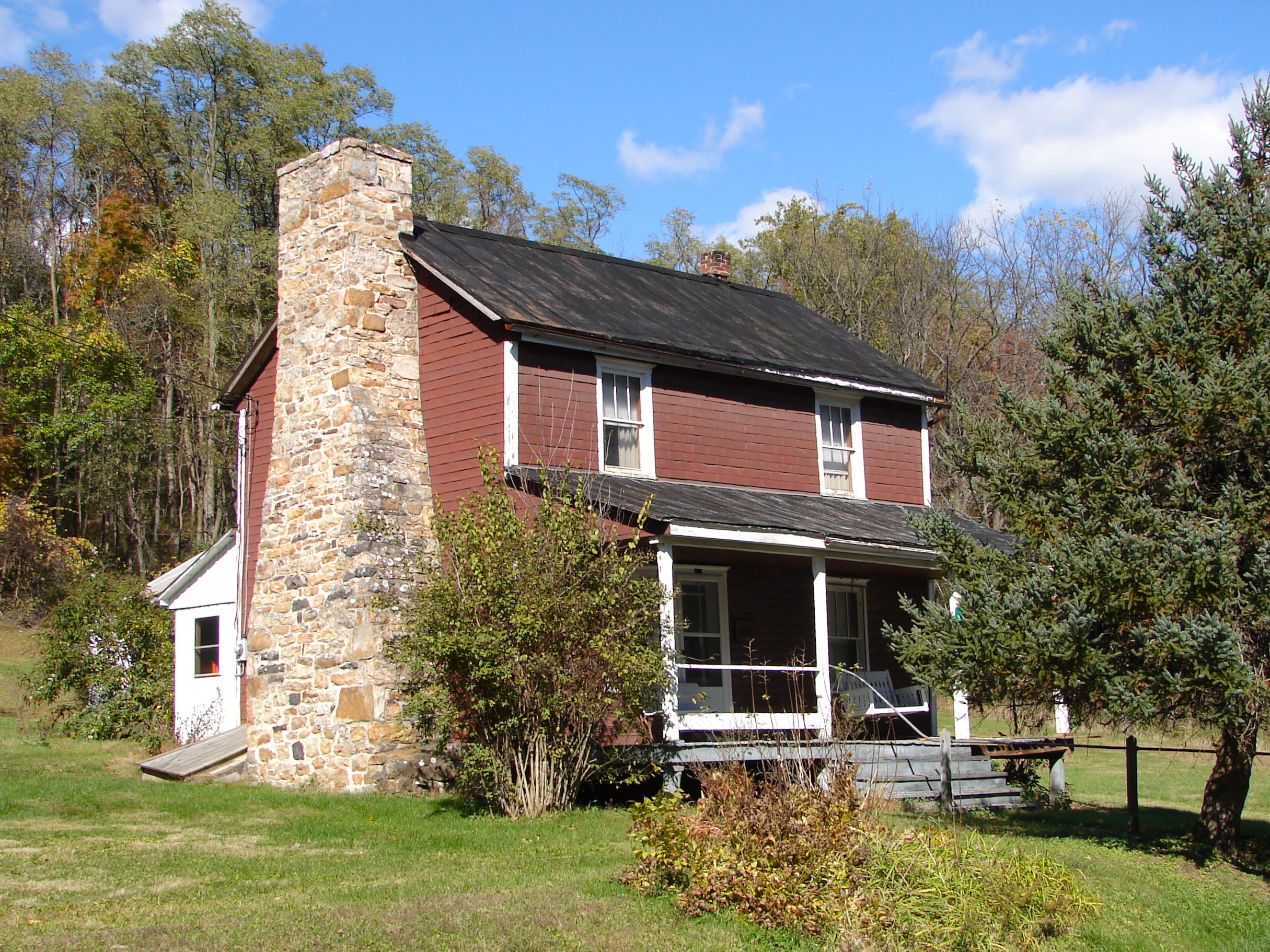 O'Donel House and Farm (House) on NRHP since July 17, 1986. West of New Germantown on Pennsylvania Route 274, in Toboyne Township, Perry County, Pennsylvania.